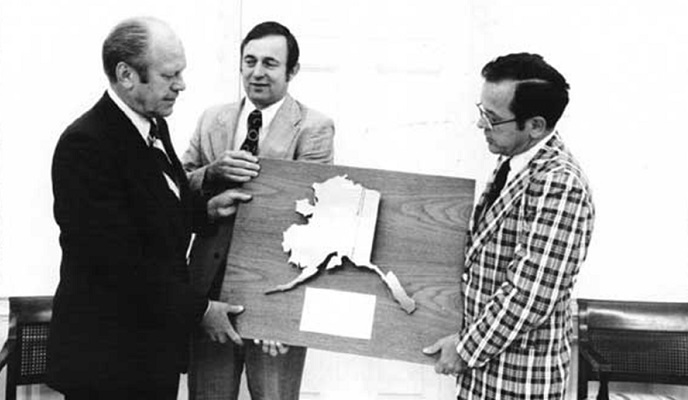 President Ford stands with Alaska Representative Don Young and Senator Ted Stevens who worked hard to establish Klondike Gold Rush National Historical Park, July 17, 1975.